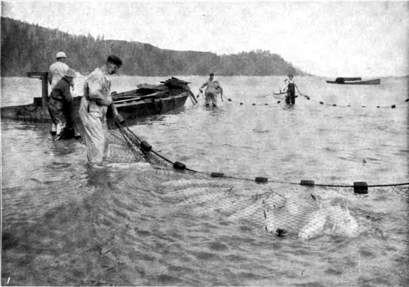 "Seining for Salmon on the Columbia River"